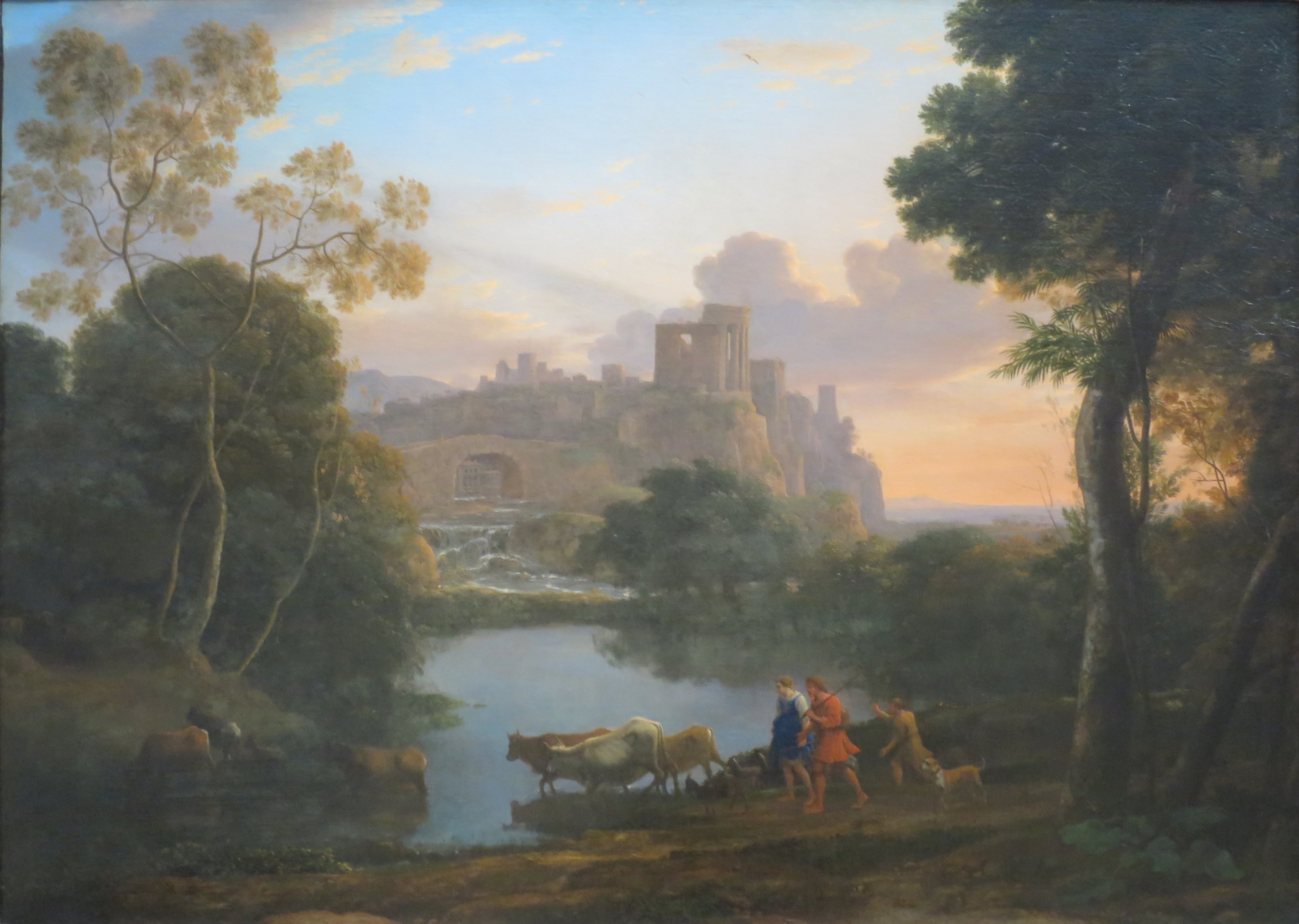 View of Trivoli at Sunset, c. 1642-1644, oil on canvas, California Palace of the Legion of Honor